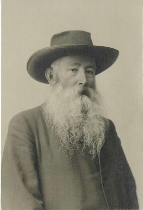 Janez Mencinger (1838-1912), Slovene writer, poet, lawyer and translator.